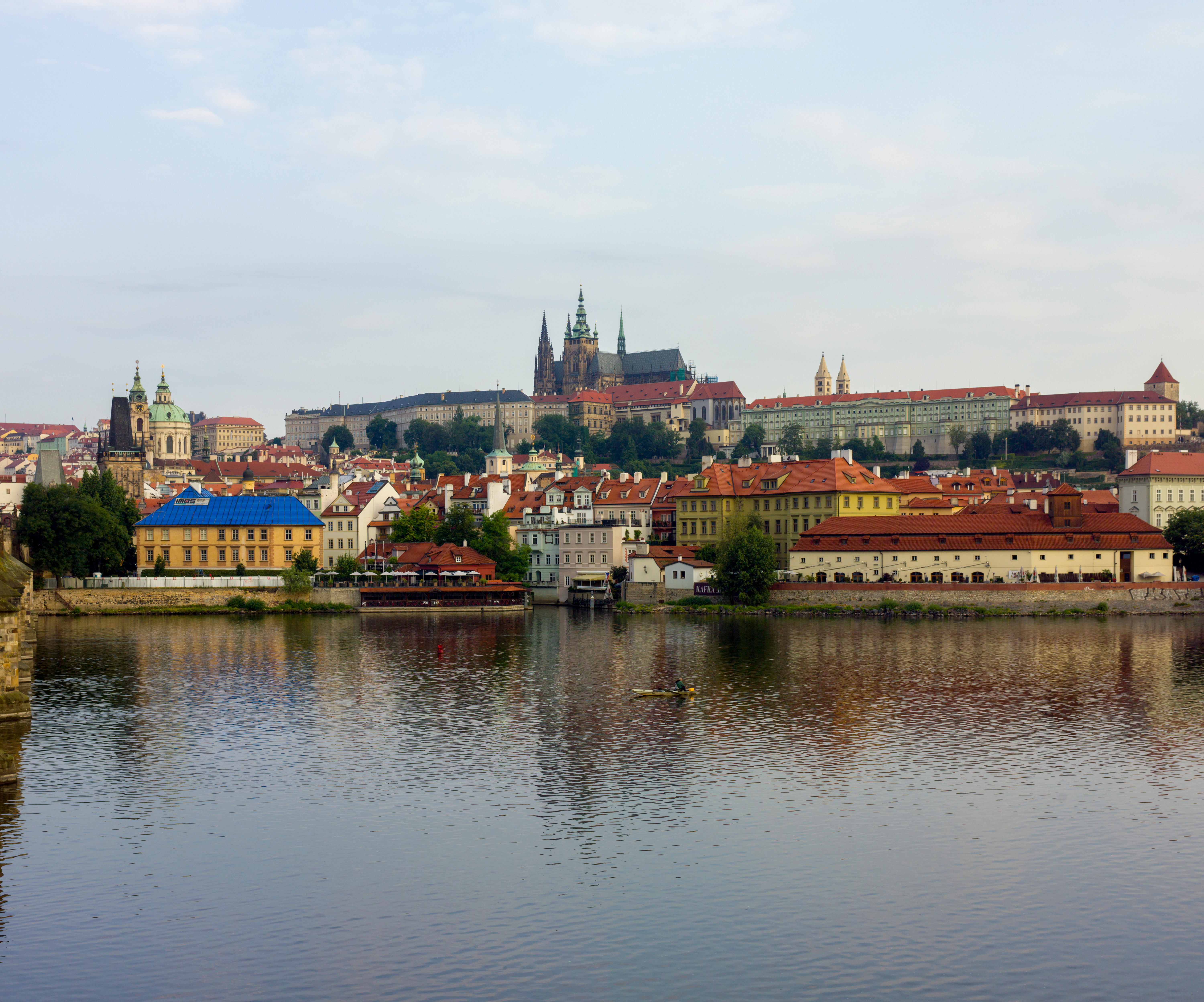 View of Prague Castle